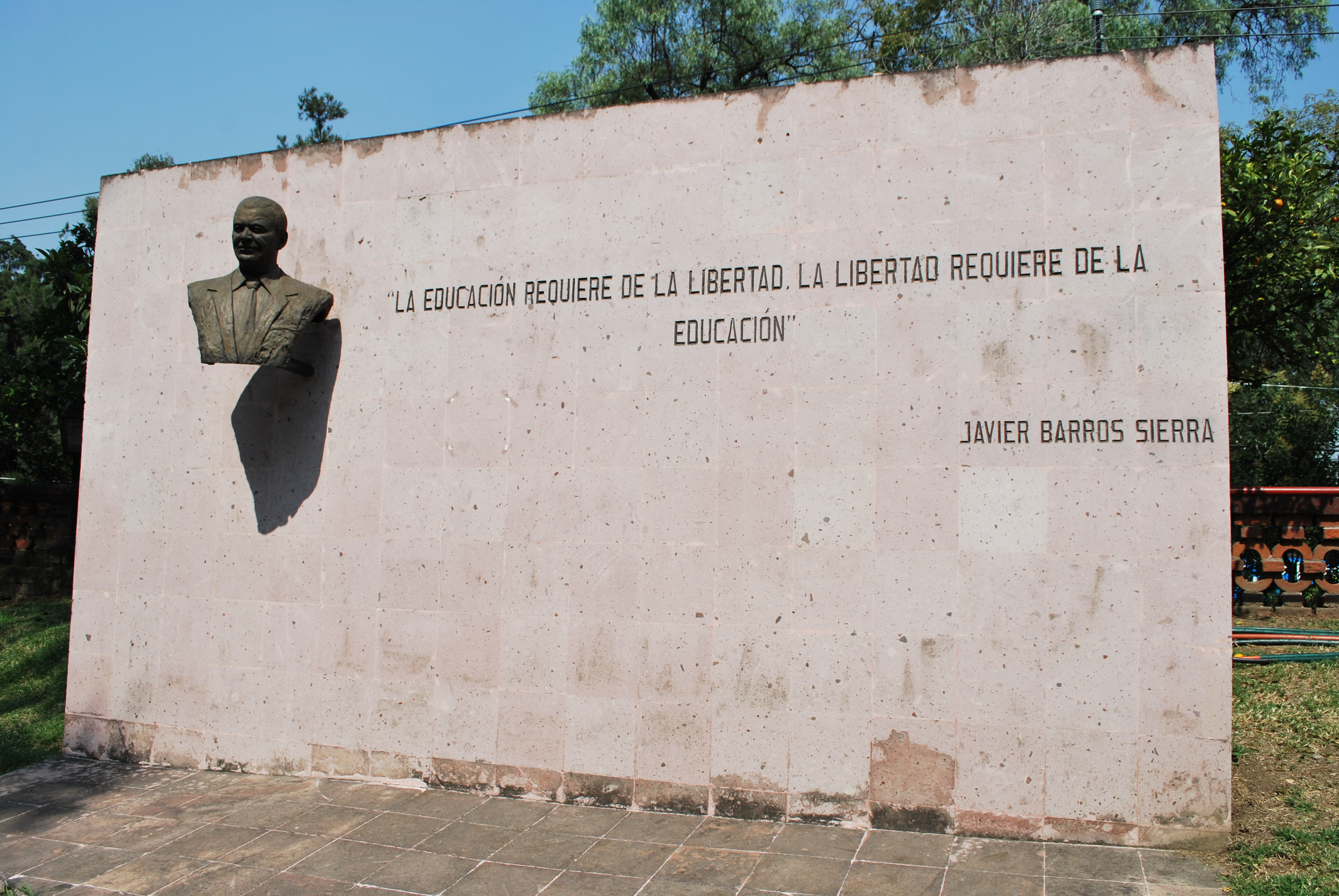 Monument to Javier Barros Sierra at the Casa Frissac, Tlalpan, Mexico